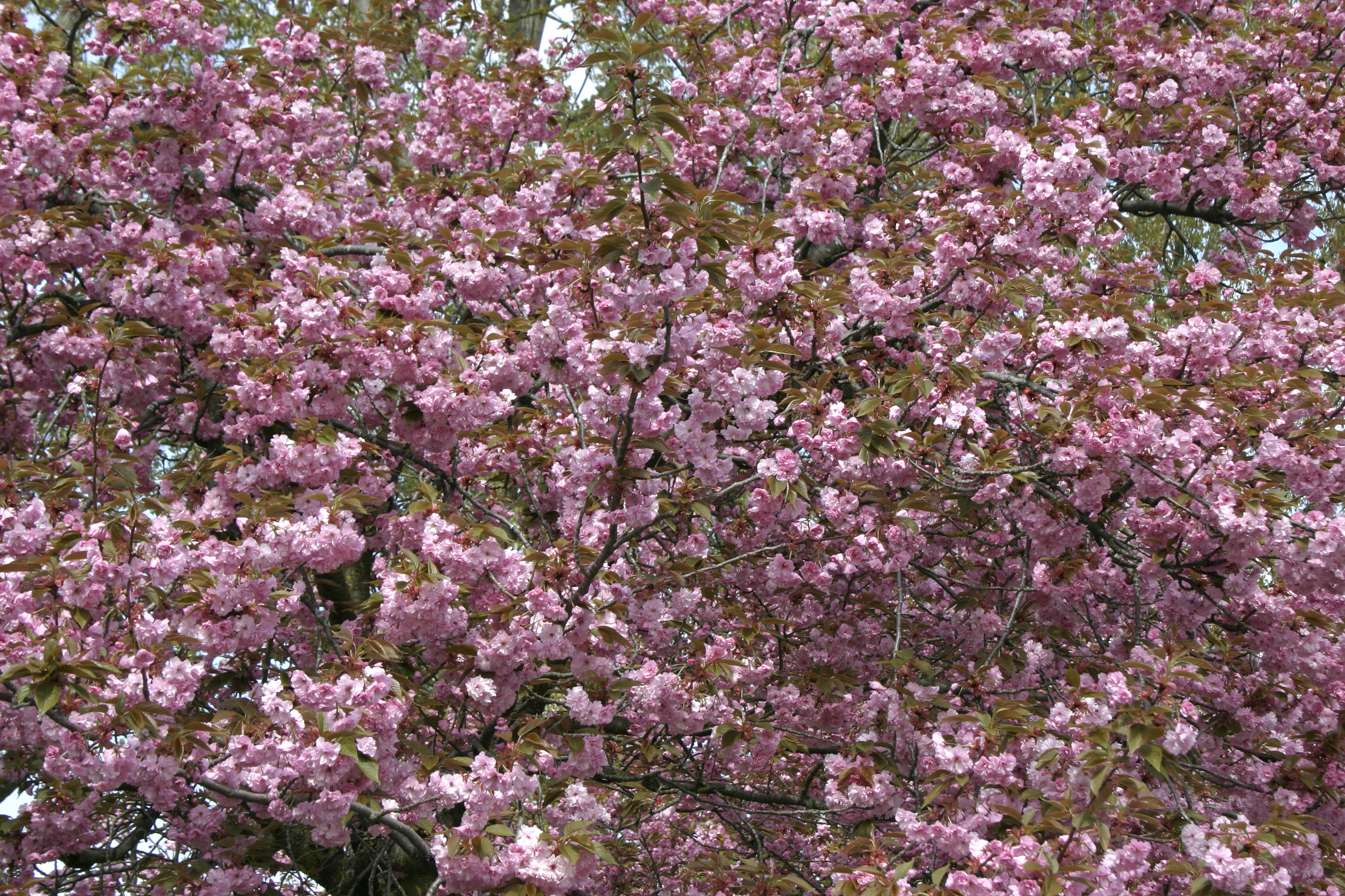 Japanese Cherry Tree - Blossoms